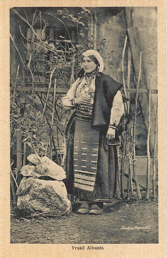 Photograph of a woman in Vraka, northern Albania, by Pjetër Marubi.